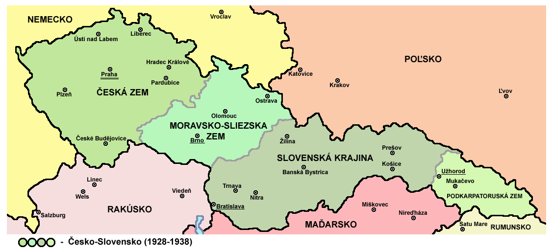 Map of Czechoslovakia in 1928-1938 - Slovak language version.